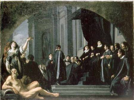 The Senators of Florence Swearing Allegiance to the Grand Duke of Tuscany.